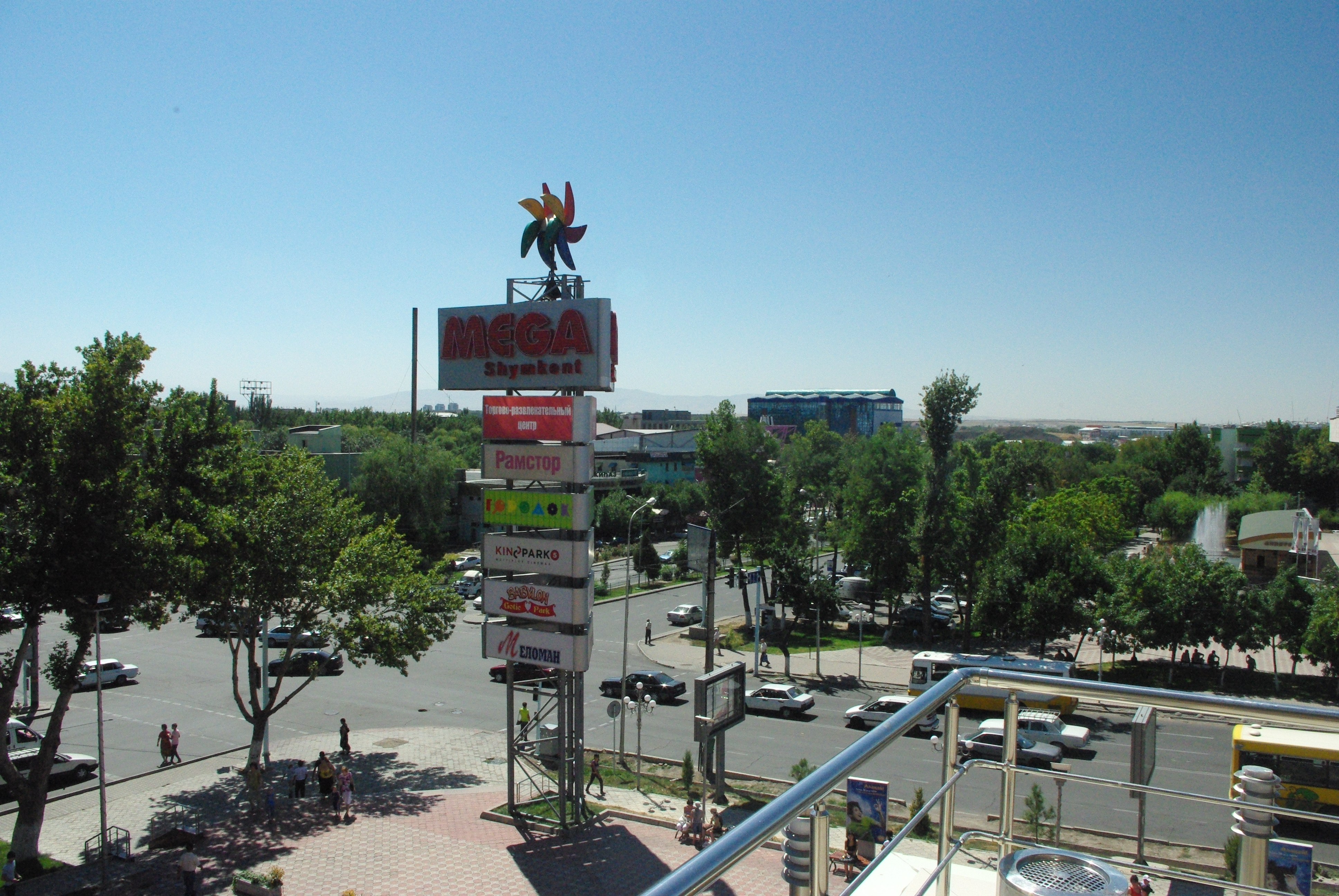 View of Shymkent from the roof of the "Mega" mall.